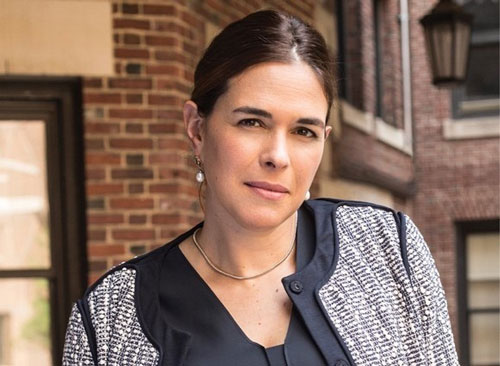 photograph of Barnard President Sian Beilock